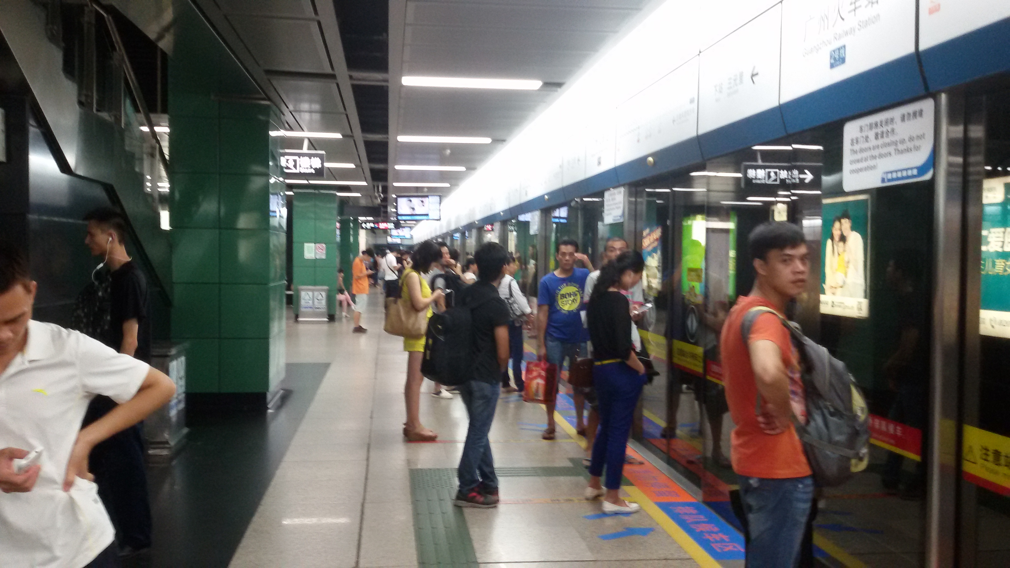 Platform for Line 2 at Guangzhou Railway Station in Guangzhou Metro.